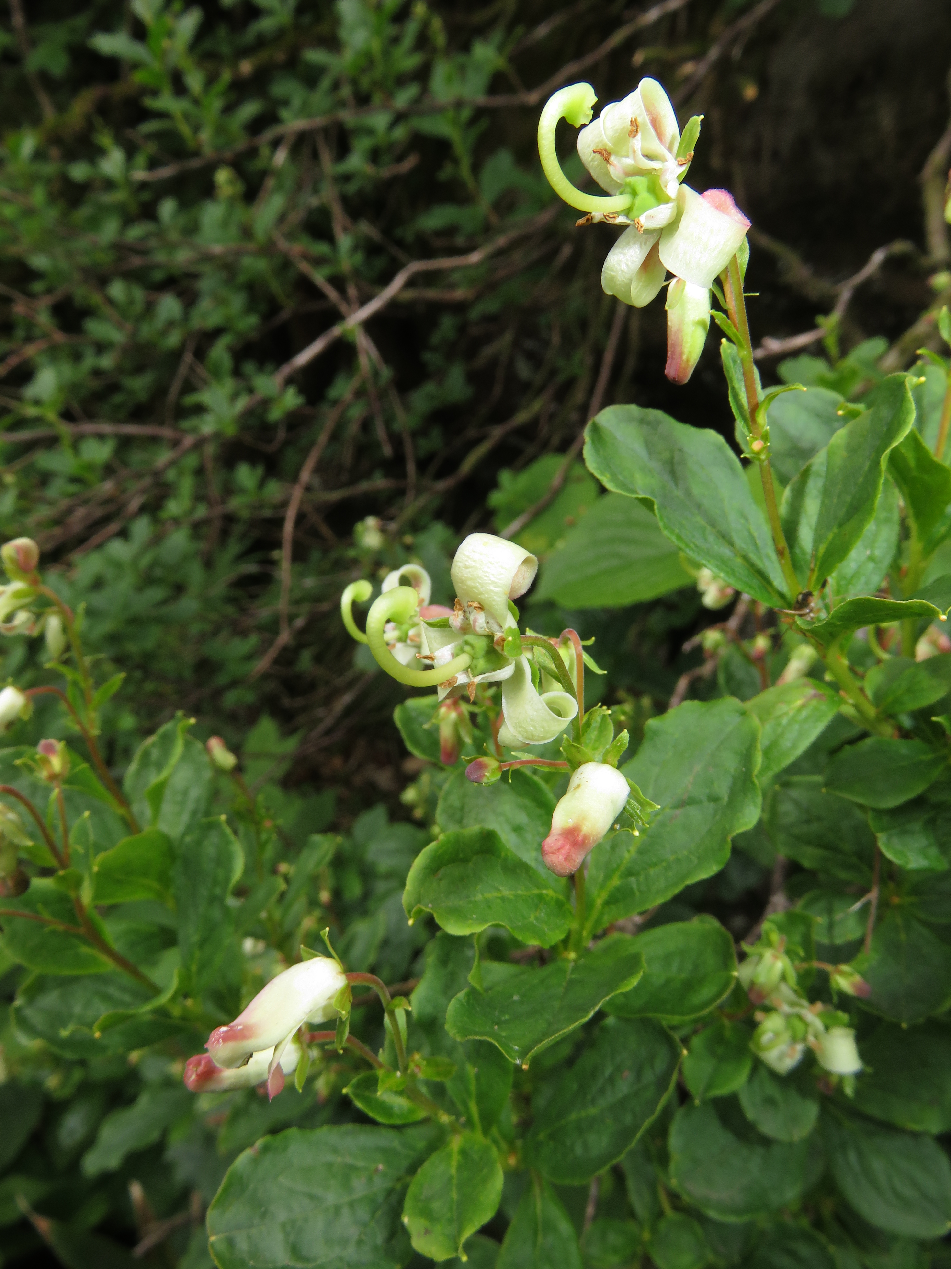 Elliottia bracteata, Mount Nishi-azumayama, Fukushima pref., Japan